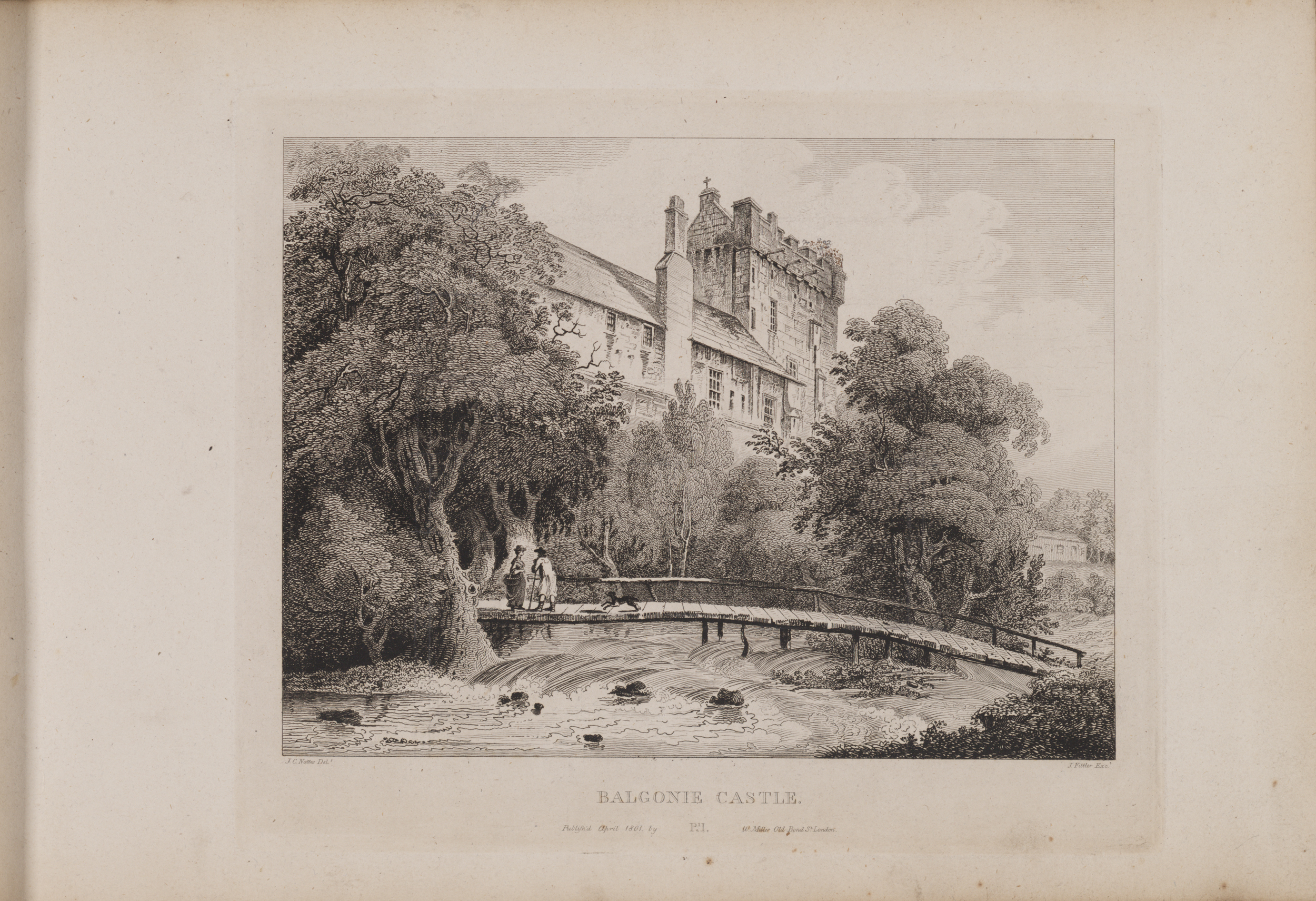 Plate I/b - John Claude Nattes made drawings of suitable scenes on the spot; etchings are by James Fittler. - John Claude Nattes made drawings of suitable scenes on the spot; etchings are by James Fittler.